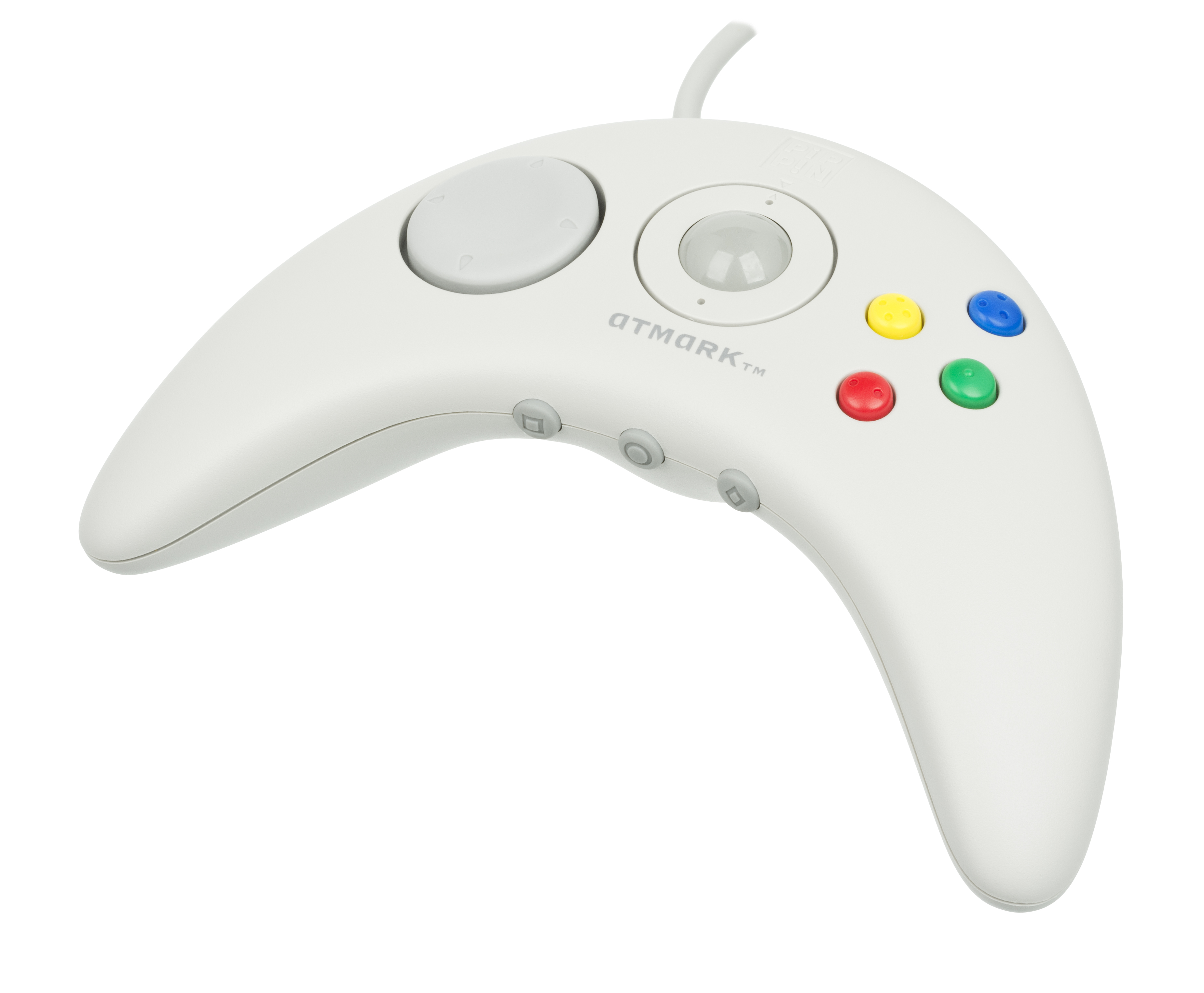 The Applejack controller for the Apple Pippin, a video game console/computer hybrid that was manufactured by Bandai and released in 1995. This is the Japanese version, the Atmark, that was colored white. The version released in America was called the @WORLD and was colored black. The system was based on the Apple Macintosh computer that was streamlined and focused for playing CD-ROM games.